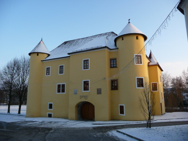 View of Sigharting castle from north